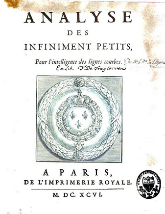 Frontpage of 'first edition of Analyse des infinitement petits (1696) by Marquis de L'Hôpital (1661-1704)